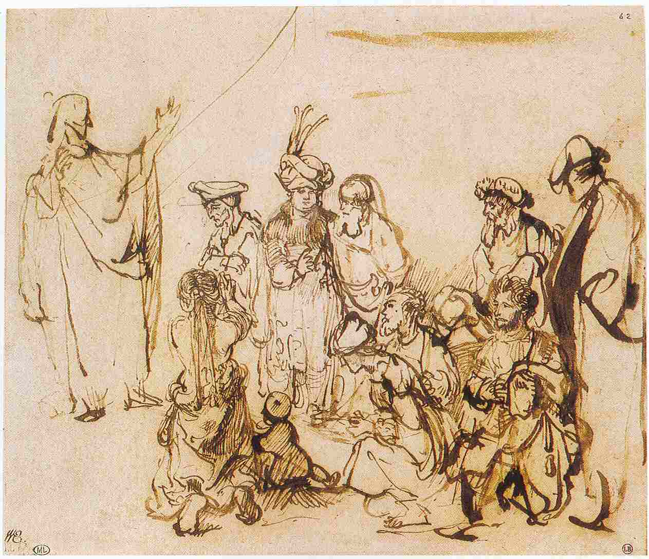 Study for the Hundred-guilder Print